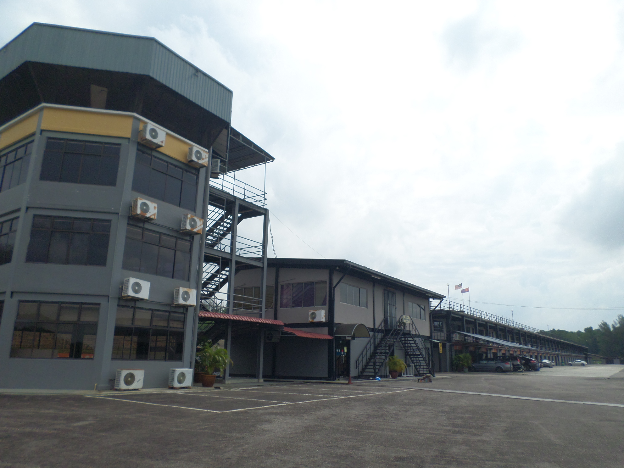 Johor Circuit, Pasir Gudang, Johor Bahru, Johor, Malaysia